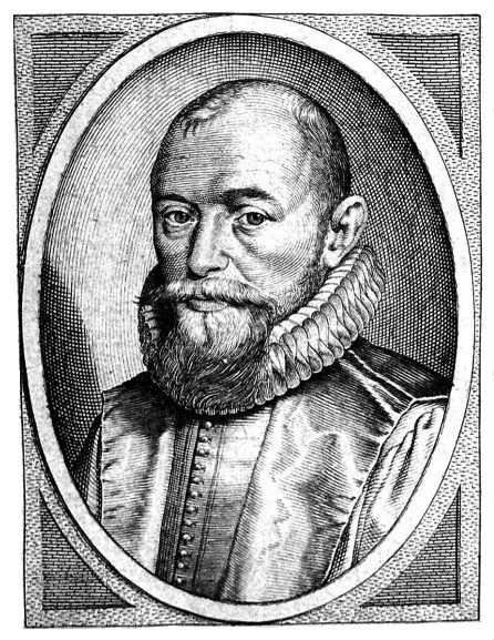 Simon Episcopius (1583-1643) Leader of the Remonstrants and primary author of "The Arminian Confession of 1621"